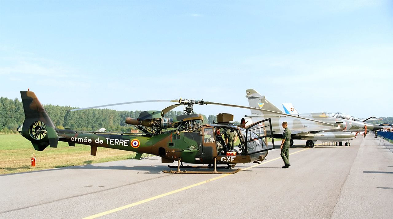 Aerospatiale Gazelle SA 342M Viviane of French Armée de Terre on static display at Radom Air Show 2005.